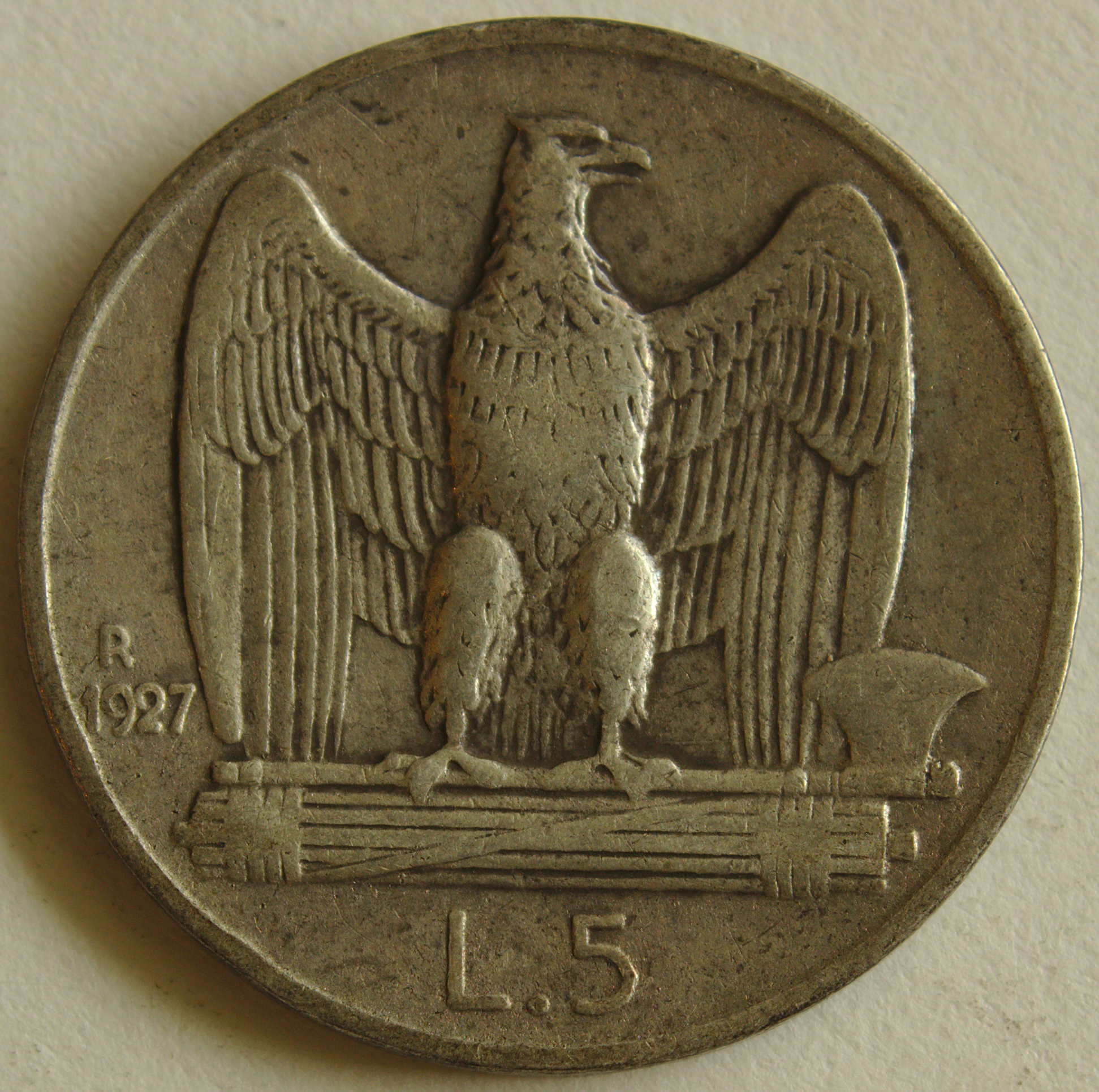 1927 5 Lire coin reverse. Obverse at File:1927 5 Lire coin obverse.jpg